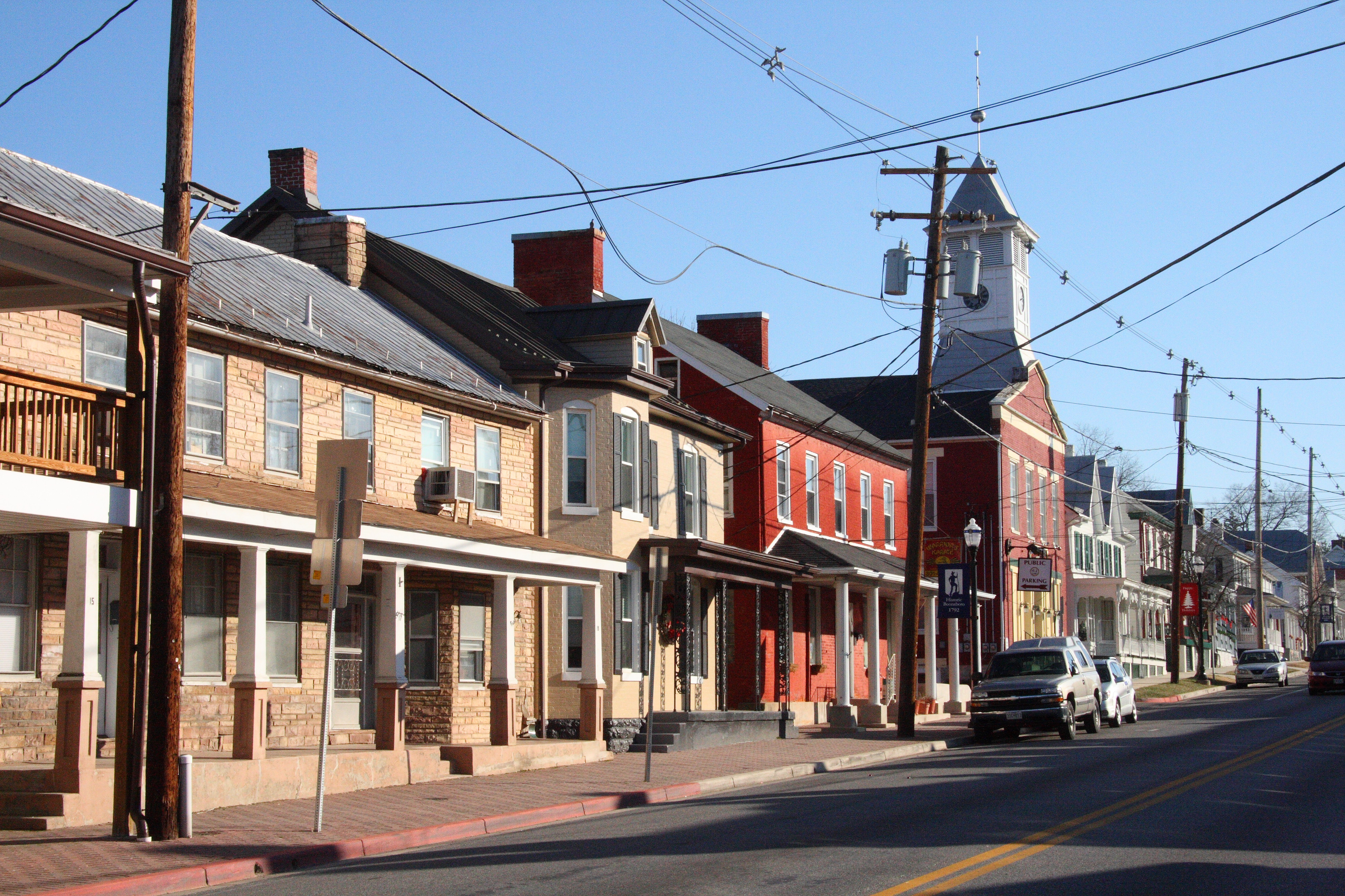 East Main Street, Boonsboro, Maryland, USA